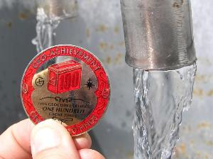 Geocoin